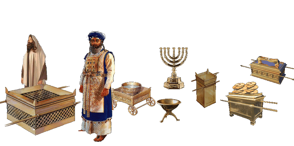 Mishkan Tabernacle items, overall. 3D Digital Art. 1